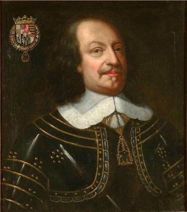 Portrait of Prince Maurice of Savoy (1593-1657)